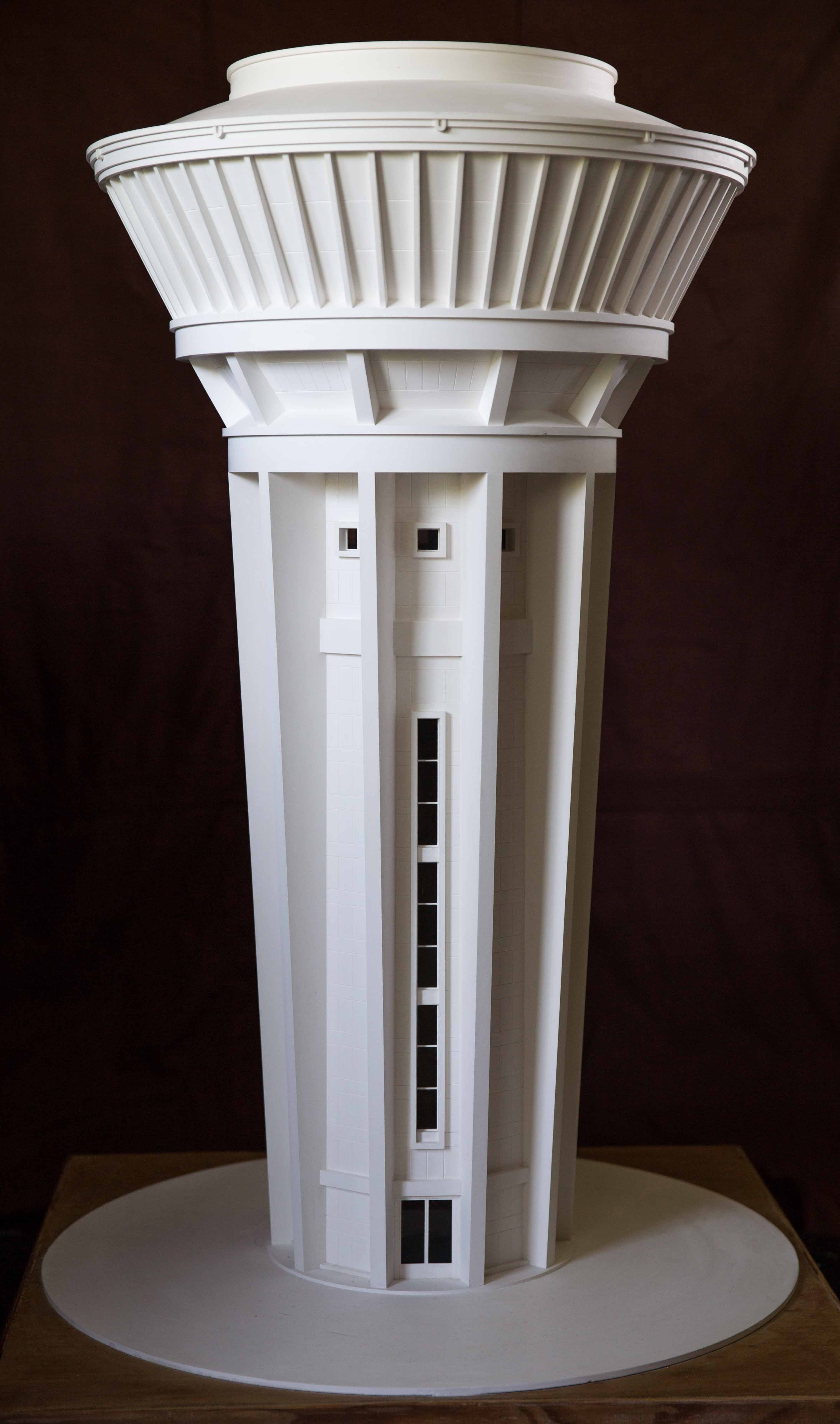 Model of the water tower of Saclay at the scale of 3 cm for 1 meter (0,03 pm). Made in hard plaster. The water tower represented by this model is built inside the Saclay Atomic Energy Commission (CEA). It is forbidden to make pictures there.